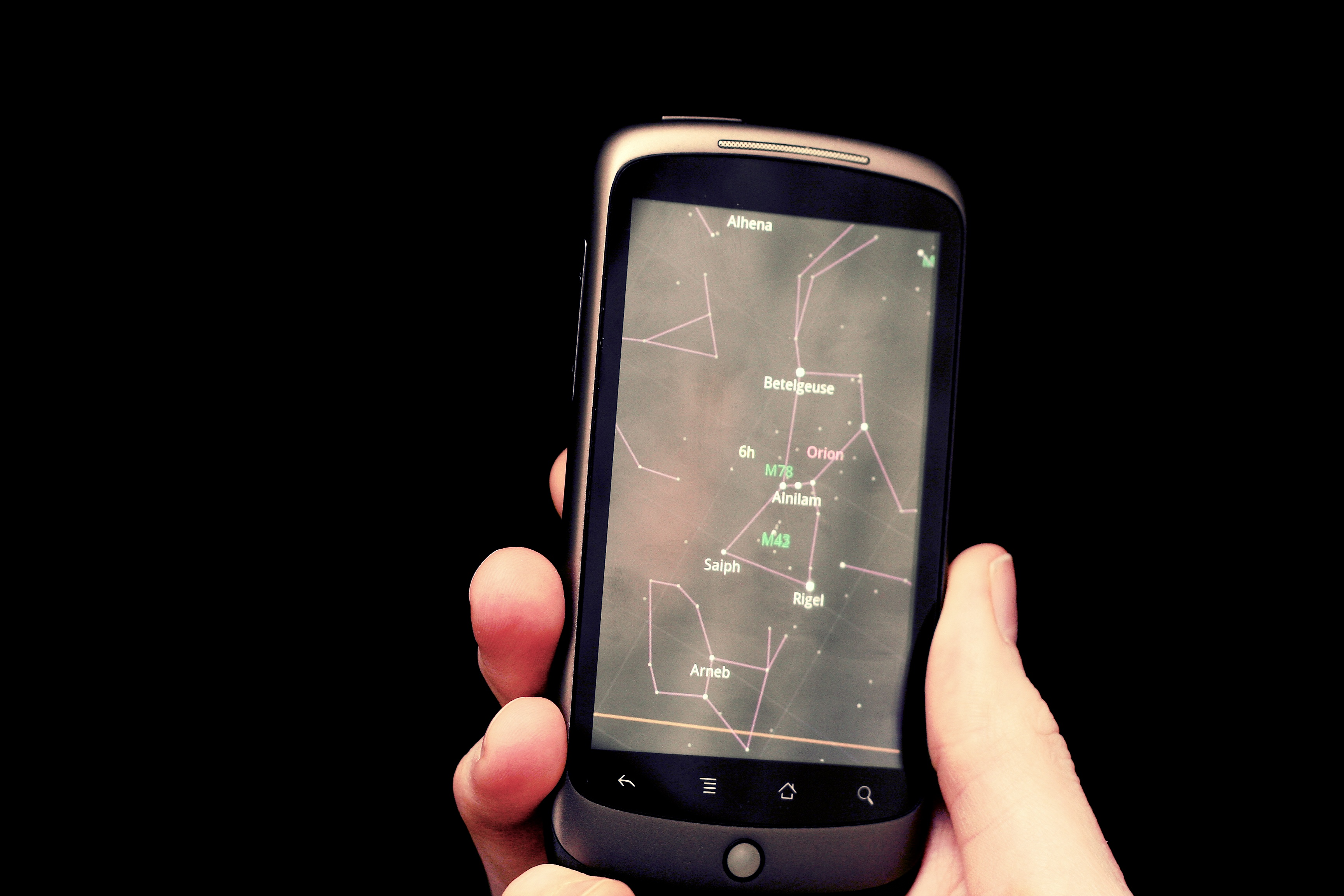 Sky Map in operation on a Nexus One.